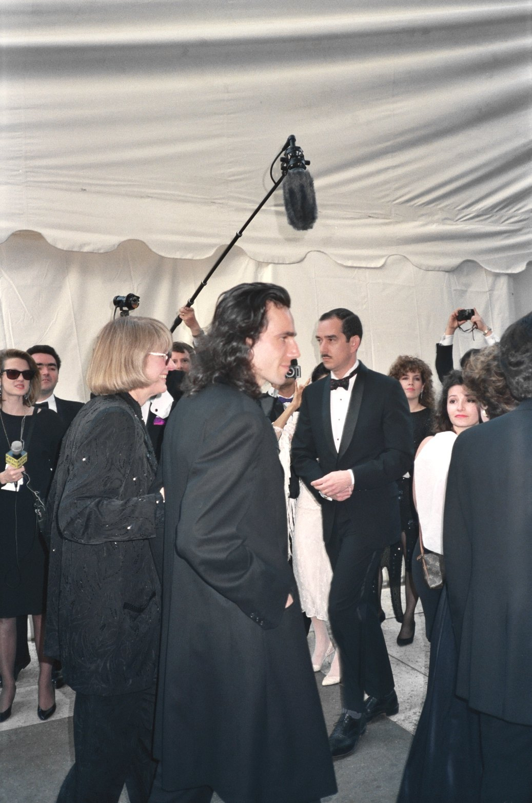 1990 Academy Awards. Scanned from the original 35MM film negative.